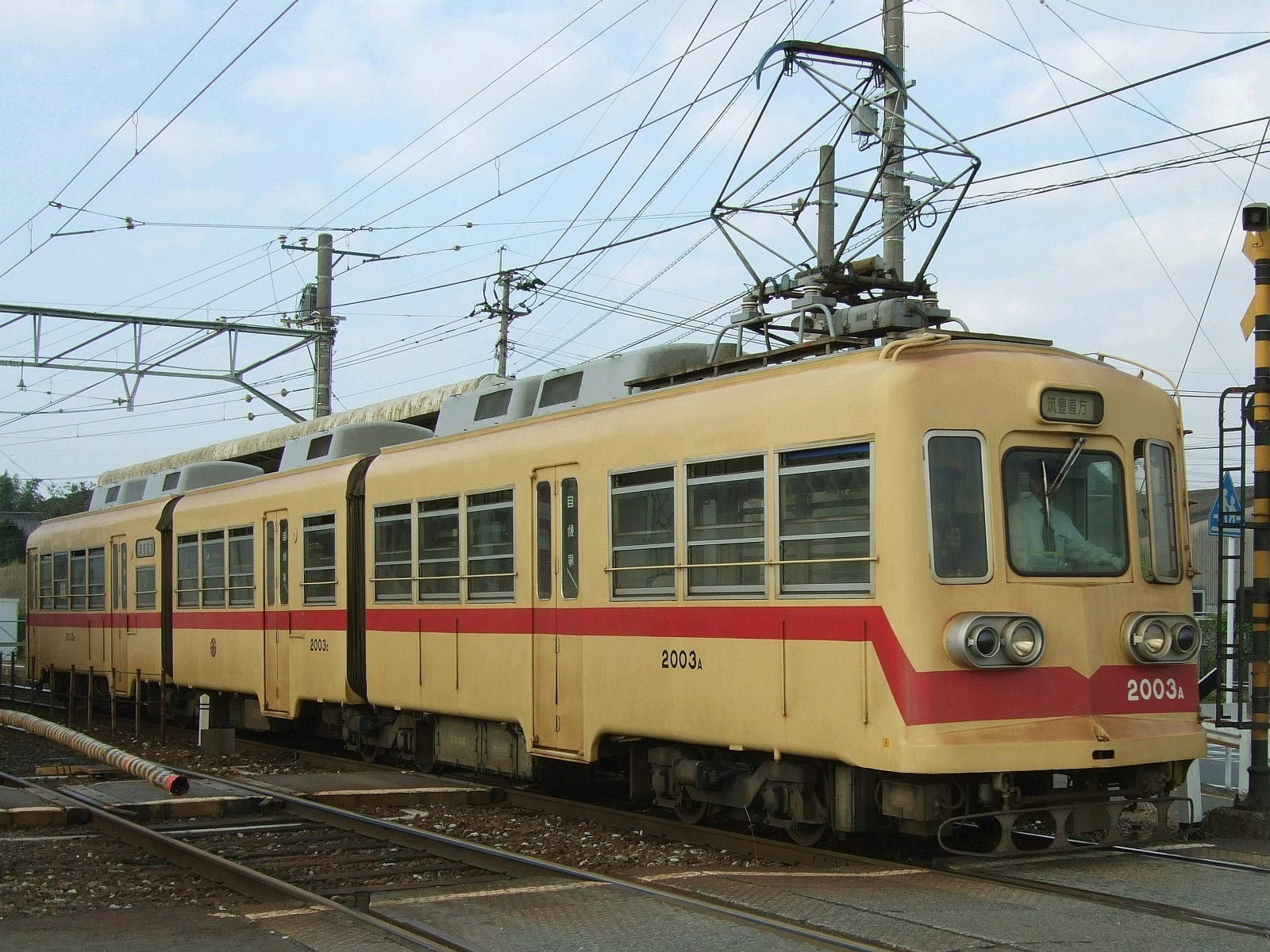 Chikuho Electric Railroad 2000 series EMU 2003 in original livery at Kusubashi Station in Yahata Nishi-ku, Kitakyushu, Fukuoka, Japan